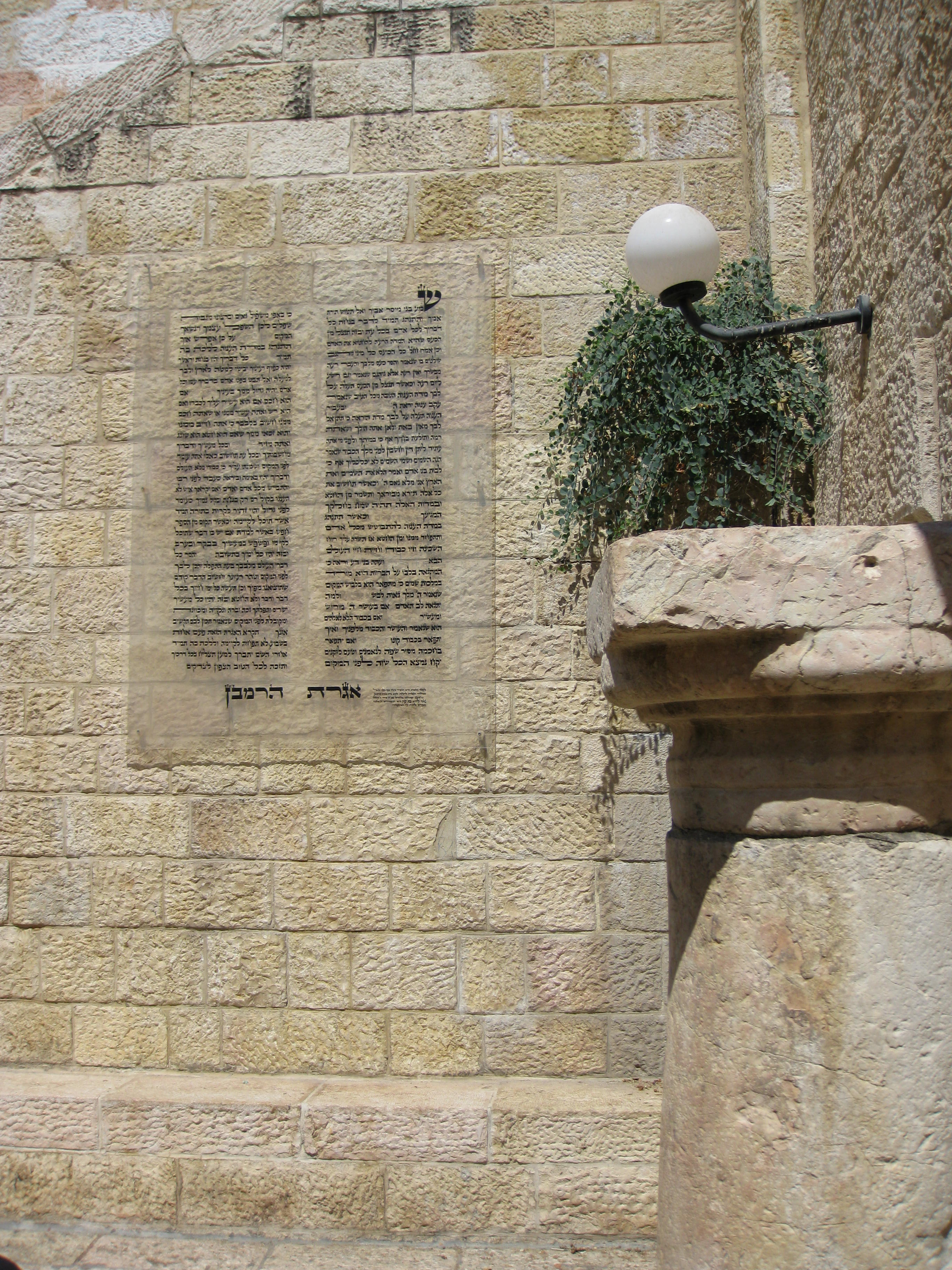 Ramban Synagogue and Igeret Haramban (the letter from the Ramban to his son)